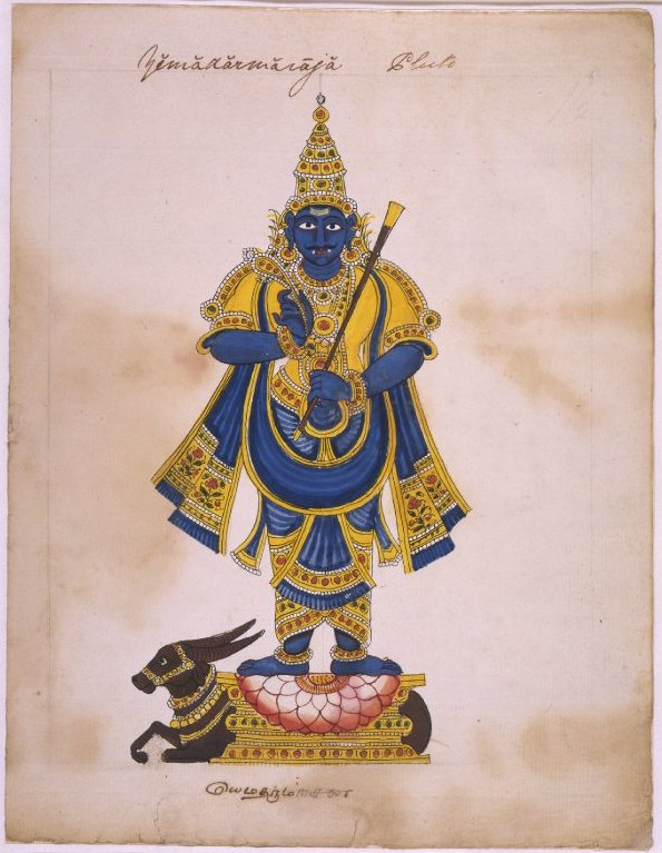 Gouache painting on paper (watermarked 1814) from a set of twelve paintings of deities. The deity Yama with fangs and holding a daṇḍa (a rod). He stands on a lotus covered dais, behind which lies a buffalo, his vahana (conveyance).